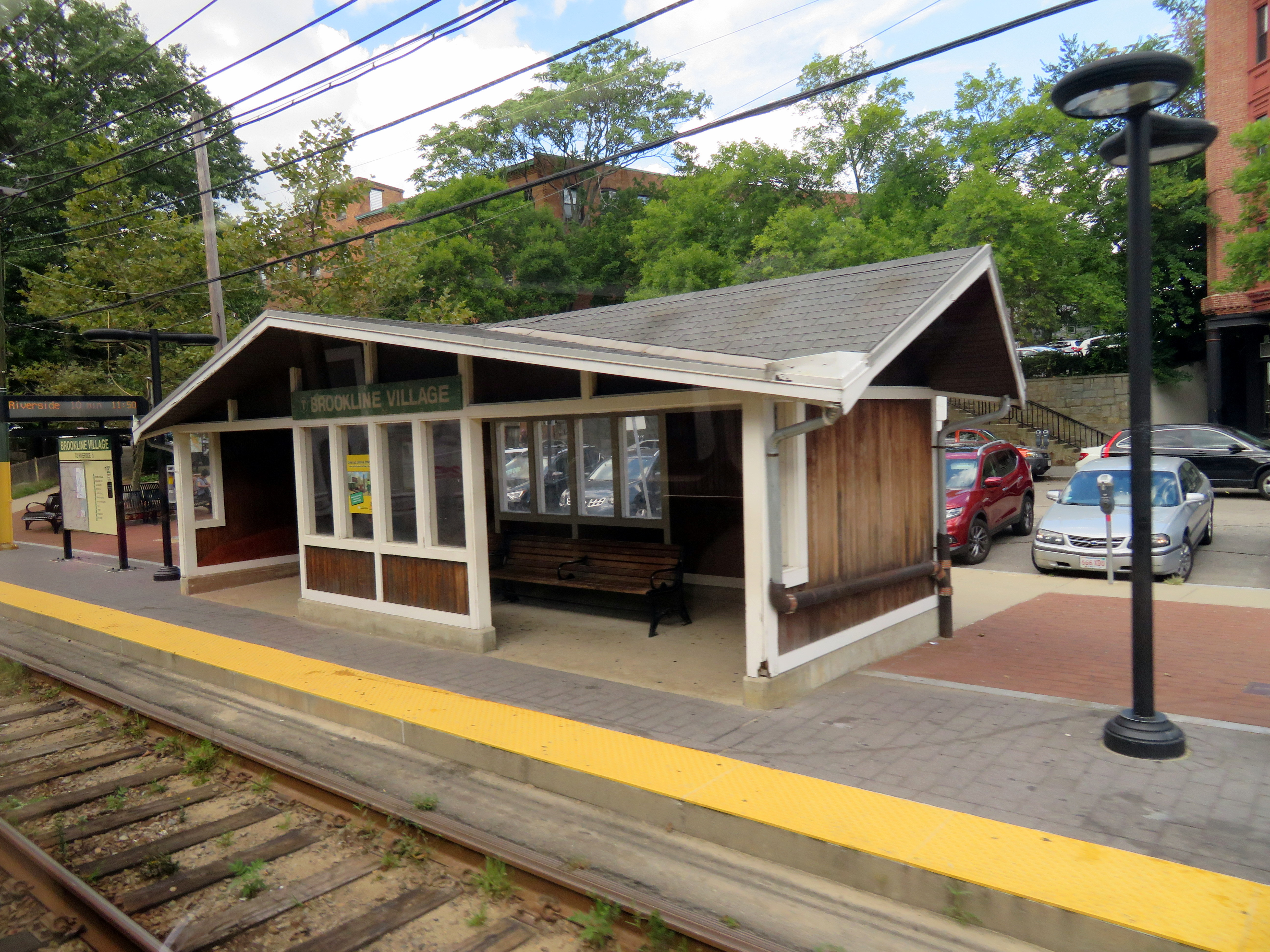 The 1959-built outbound shelter at Brookline Village station in August 2018